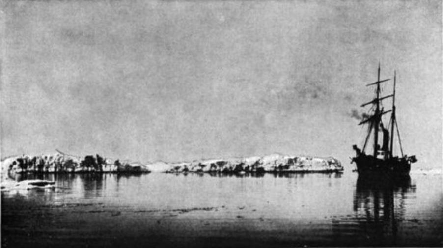 View of the Corwin, in silhouette bow-on, with sea ice to the viewer's left and open water in the foreground. The ship is operating under steam.